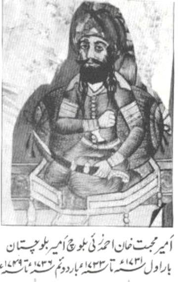 Mir Muhabbat Khan Baloch